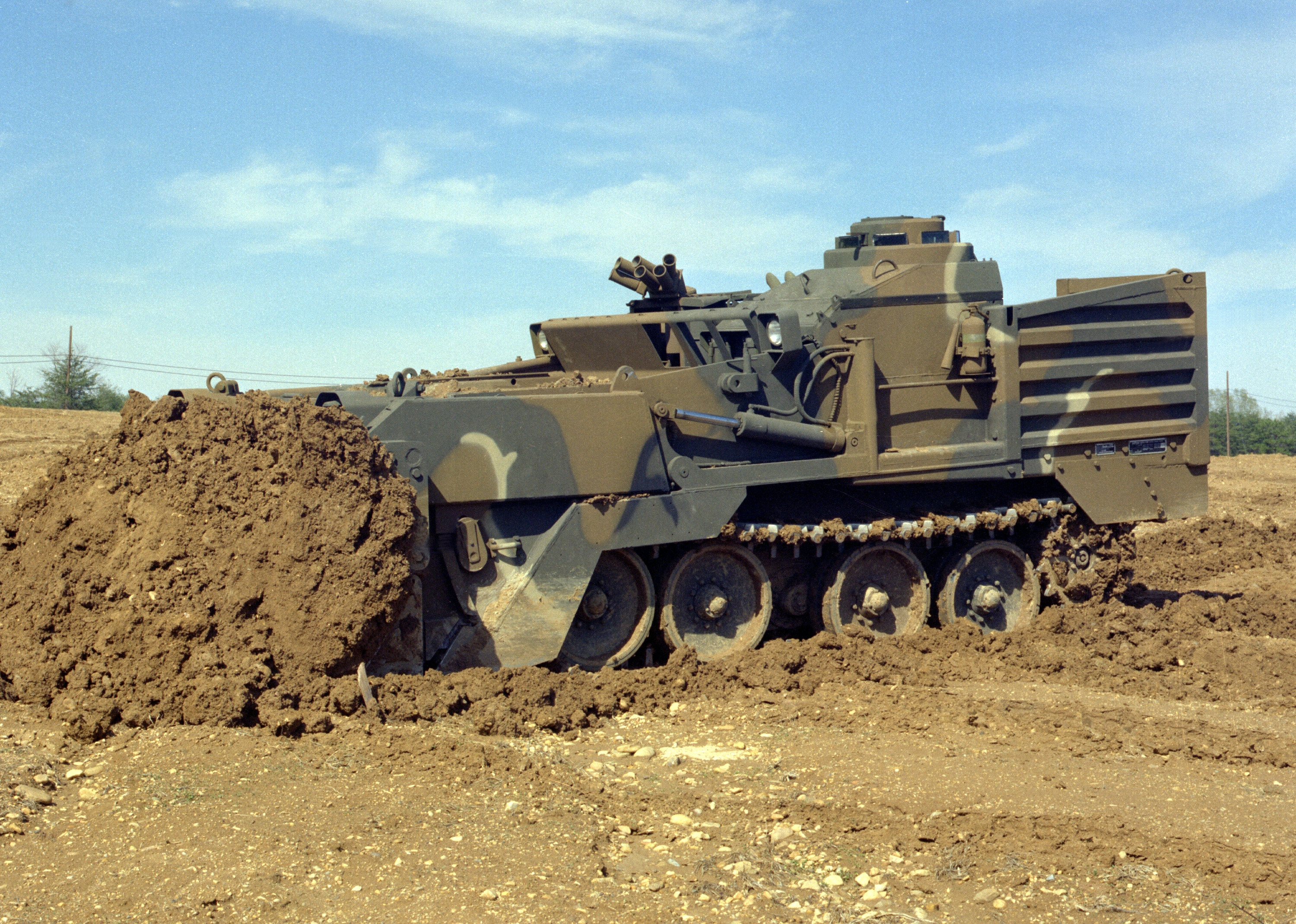 A left front view of an M-9 Armored Combat Earthmover (ACE) during a bulldozing operation. The M-9 ACE was developed by the U.S. Army Mobility Equipment Research and Development Command to provide combat engineers with an armored bulldozer capable of building combat routes and creating, demolishing, or filling various types of obstacles.